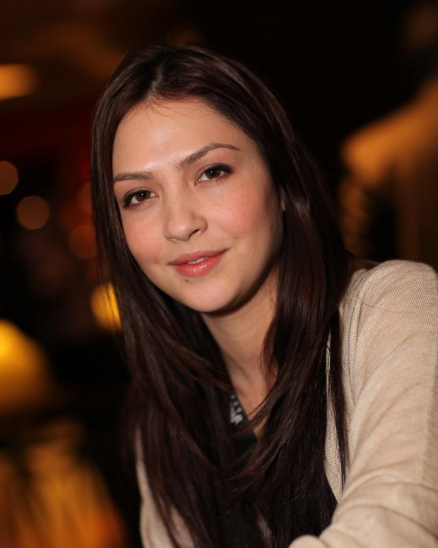 Cassie Laine at the 2013 AVN Expo & AVN Awards. Photos from the 2013 AVN Expo & AVN Awards held at the at the Hard Rock Hotel & Casino in Las Vegas. Please provide photographer credit when using, tweeting, etc... Photo by Michael Dorausch This photo is licensed under a Creative Commons license. If you use this photo within the terms of the license or make special arrangements to use the photo, please list the photo credit as "Michael Dorausch" and link the credit to .